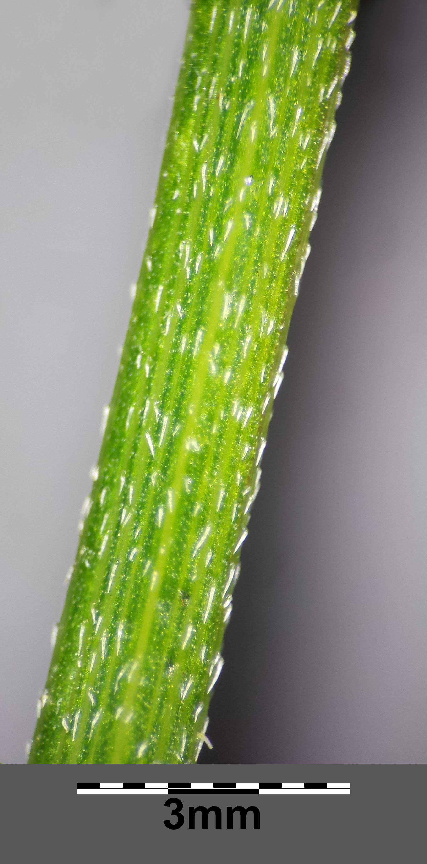 Stipe with back adjacent hairs Taxonym: Torilis arvensis ss Fischer et al. EfÖLS 2008 ISBN 978-3-85474-187-9 Location: Drygalskiweg, Vienna-Donaustadt - ca. 160 m a.s.l. Habitat: dry slope